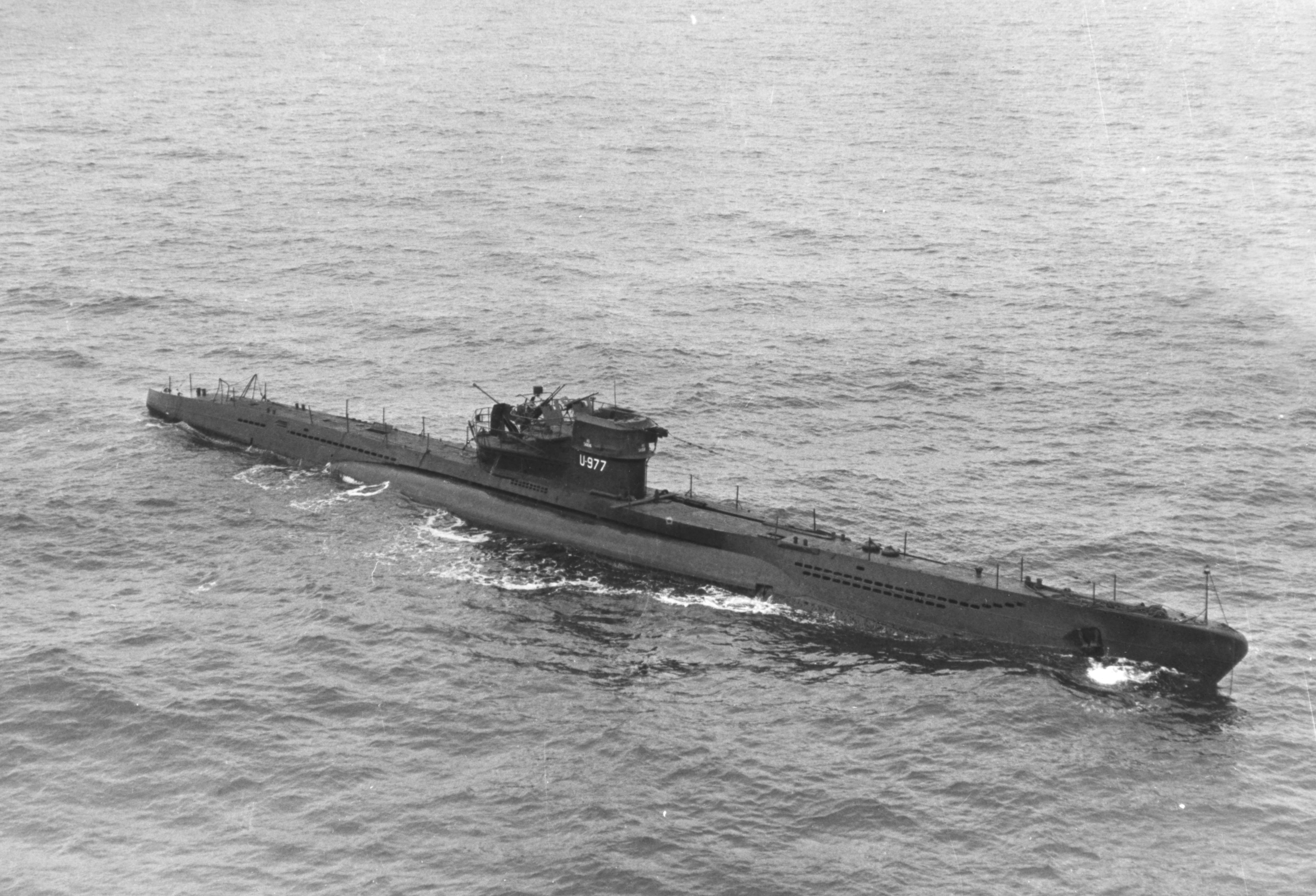 The surrendered German submarine U-977 off Cape Cod, Massachusetts (USA), just before she was sunk in a U.S. Navy torpedo test, 13 November 1946. She served as target for an improved steam torpedo fired by USS Atule (SS-403), and sank in ten seconds after being struck amidships at a range of about a thousand yards.